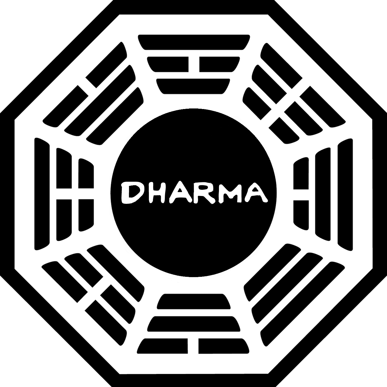 Logo of the Dharma Initiative